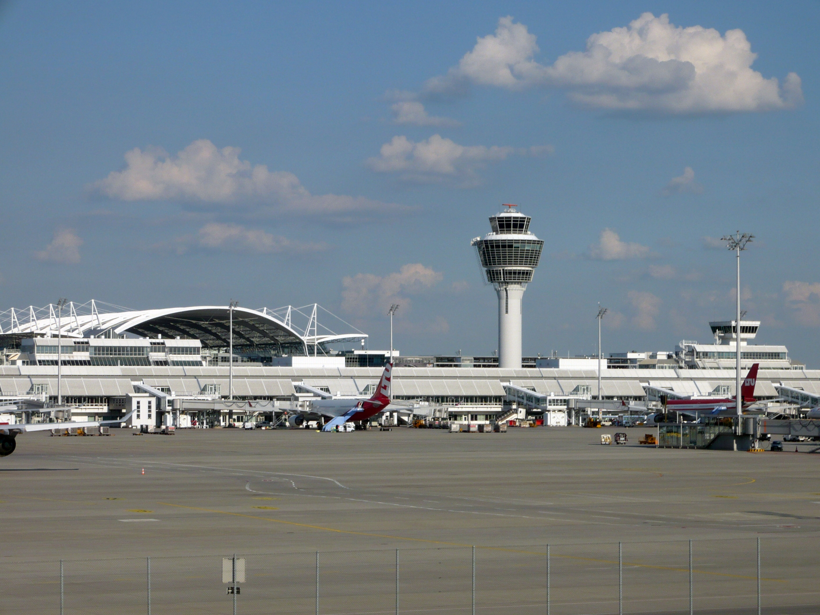 View of Munich Airport from the runway